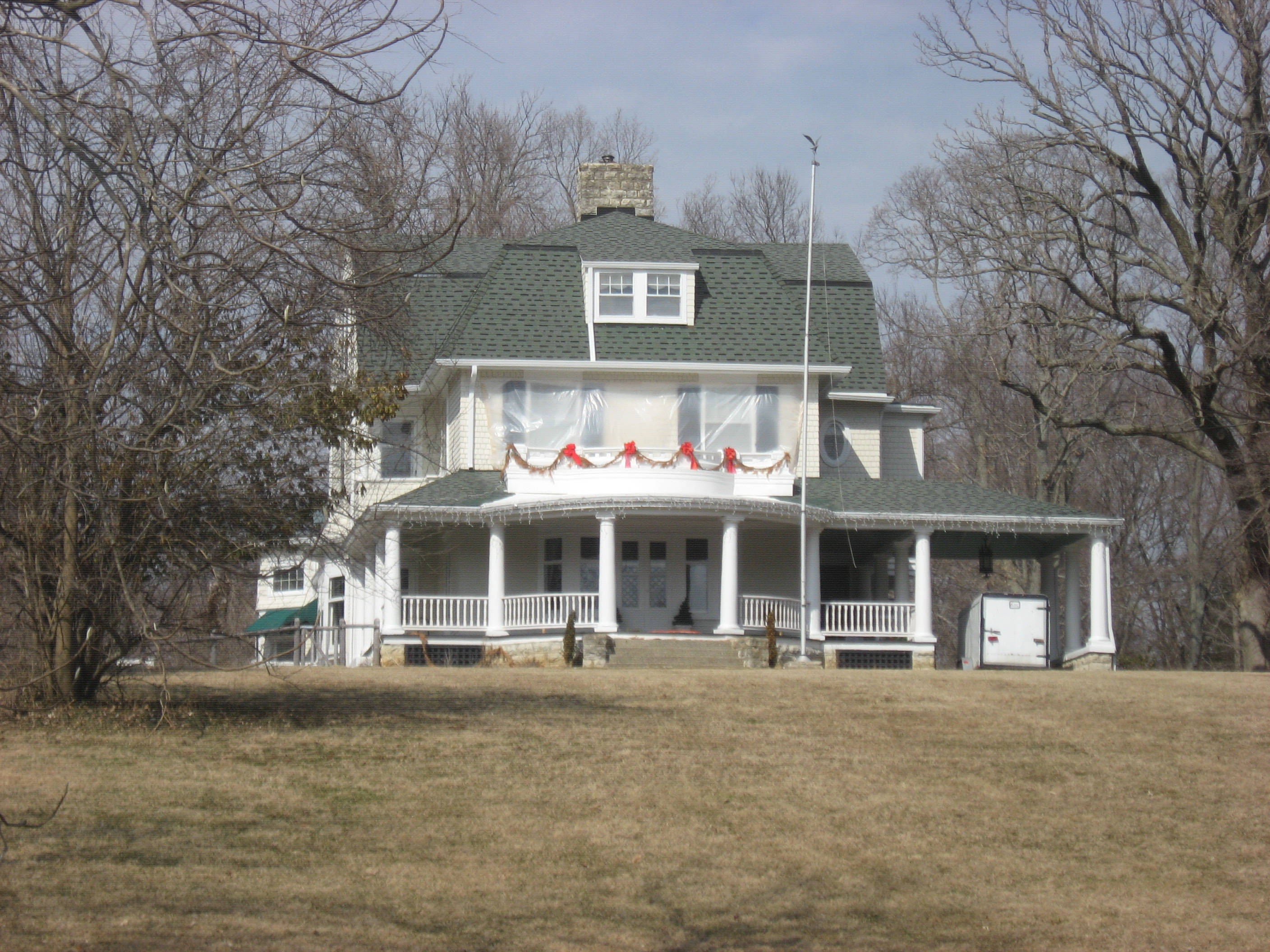 Front and western side of the James Thompson House, located at 1400 Walnut Lane in Anchorage, Kentucky, United States. Built in 1894, it is listed on the National Register of Historic Places.